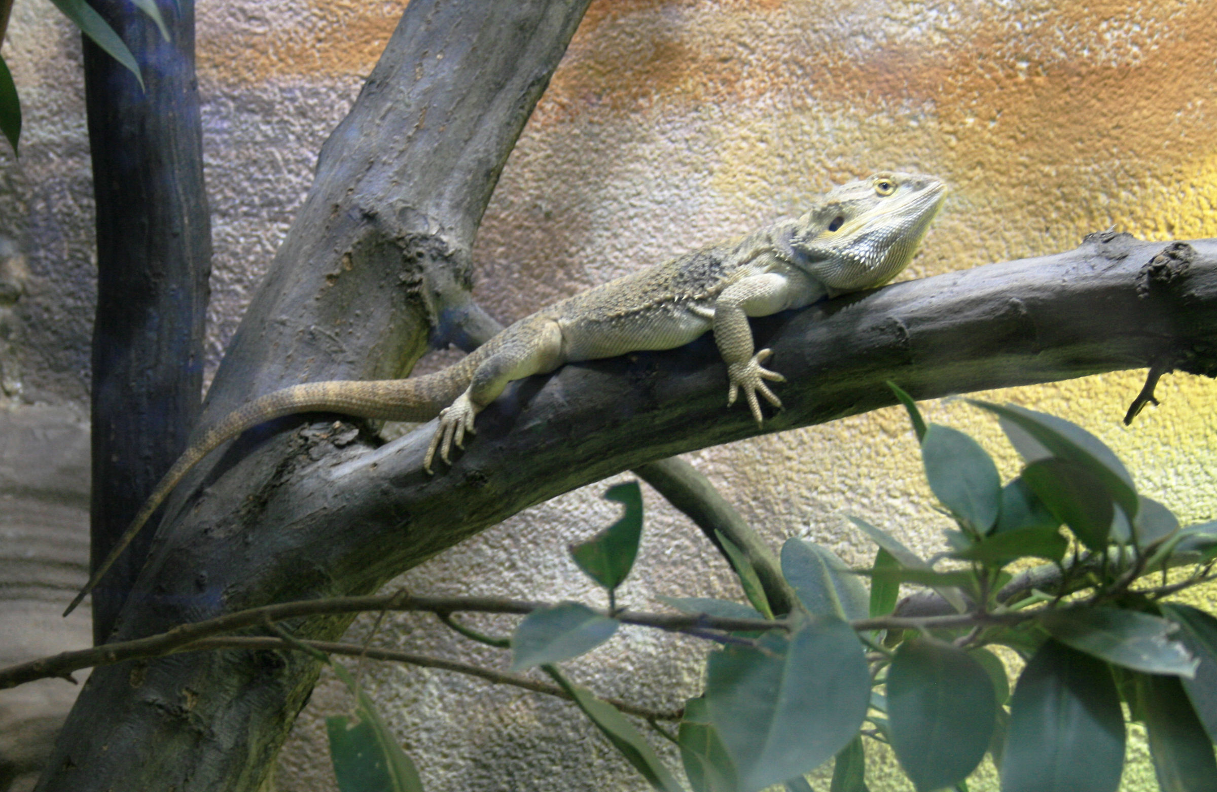 Central Bearded Dragon, Pogona vitticeps in ZOO Dvůr Králové, Czech Republic